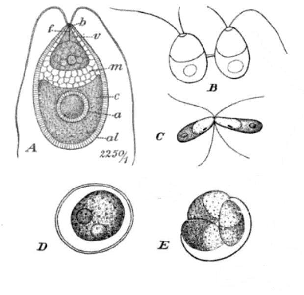 'Dunaliella salina' Teodor. A: Vegetative cell, B: Zoospores in cell division, C: Mating gametes, D: Ripe zygospore, E: Zygospore germination